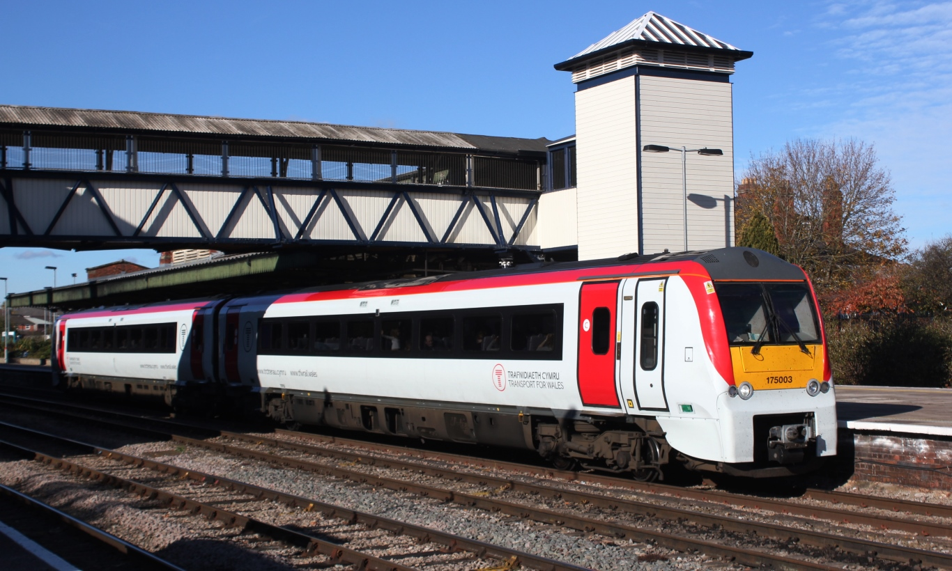 A Transport for Wales service to Carmarthen, in the shape of two-car diesel unit 175003, pulls away from a call at Hereford.